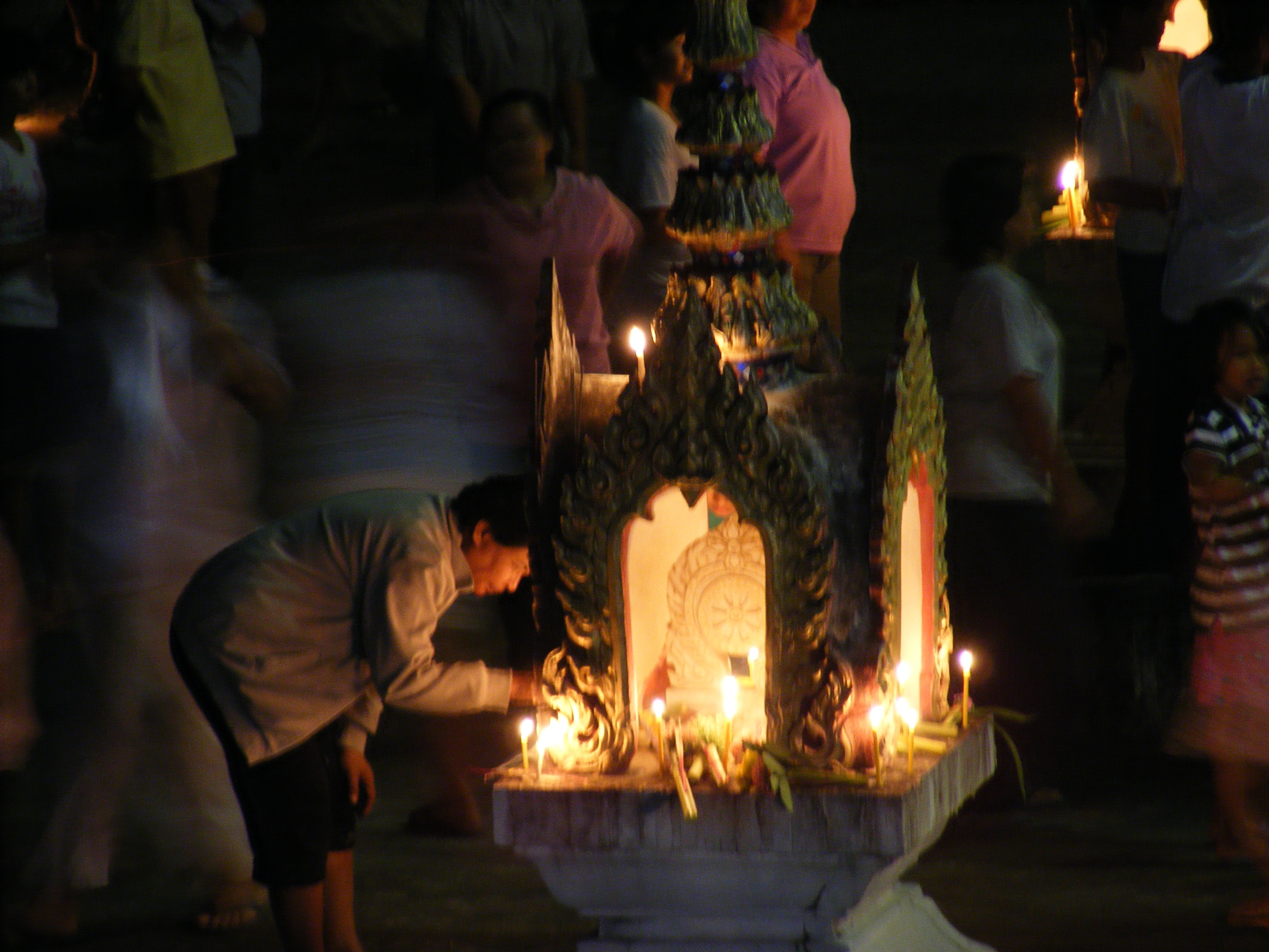 Magha Puja Location: Wat Khung Taphao Ban Khung Taphao, Khung Taphao subdistrict, Mueang Uttaradit, Uttaradit Province, Thailand.